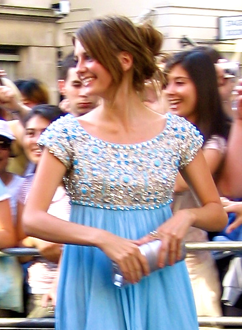 Actress Mischa Barton at a movie premiere in London.